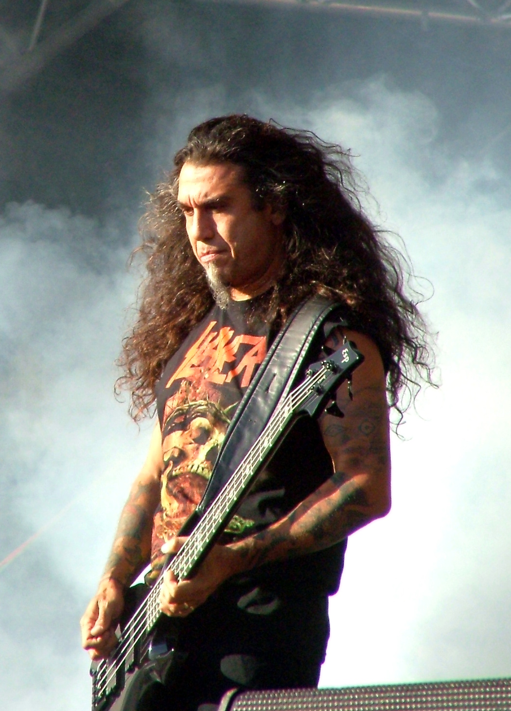 Tom Araya of Slayer at Tuska-Festival